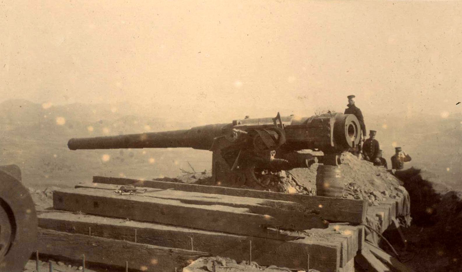 A cannon at Dalny battlefield, photographed on January 4 1905 (the day after the Japanese conquested Port Arthur) by Admiral Ernesto Burzagli (1873-1944), Italian naval attaché in Tokio, who sailed from Yokohama (Japan) on a diplomatic mission to Port Arthur, during the Russo-Japanese War. The original picture, scanned by Emiliano Burzagli, belongs to the Private archive of Burzaghi family, Italy.